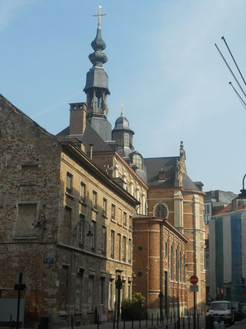 This Baroque church has an unusual wooden spire.